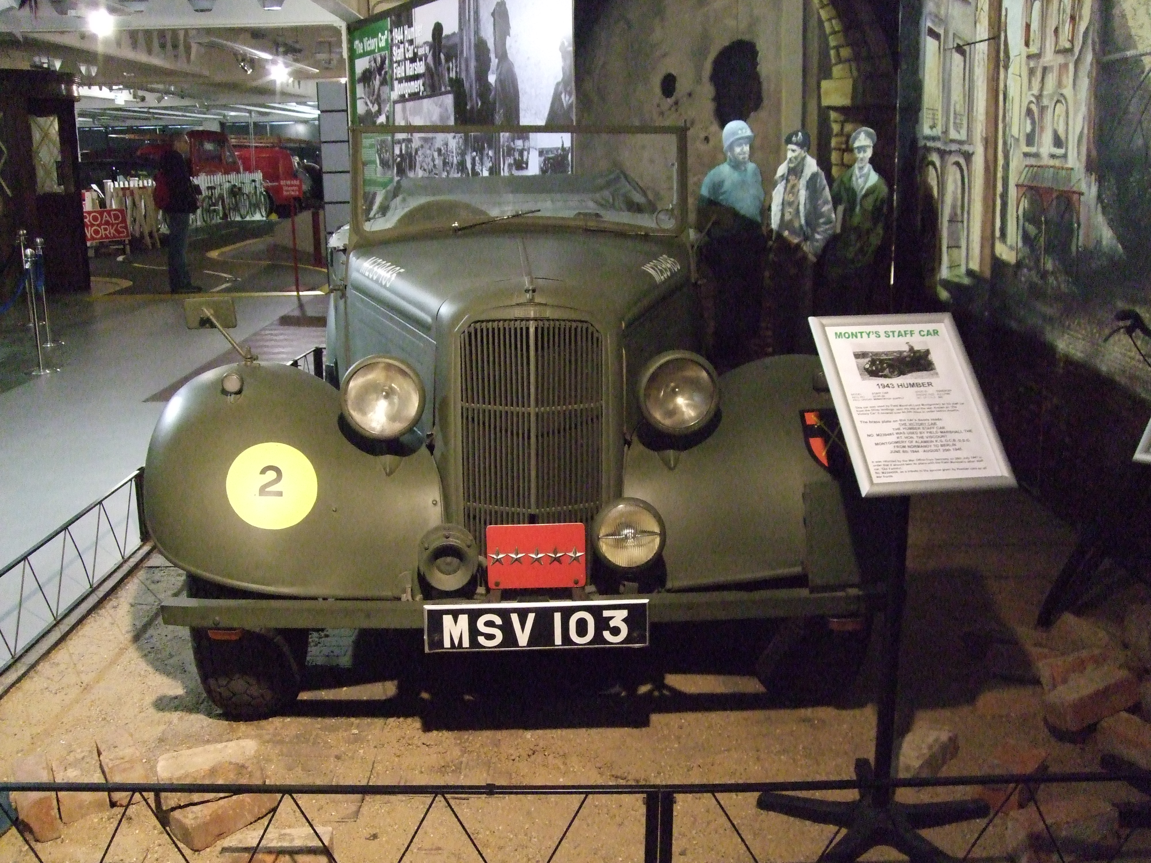 This open-tourer, based on the Super Snipe and built by Thrupp & Maberly to War Office designs, was used by Field Marshall Lord Montgomery as his staff car from the D-Day Landing until the end of the War.